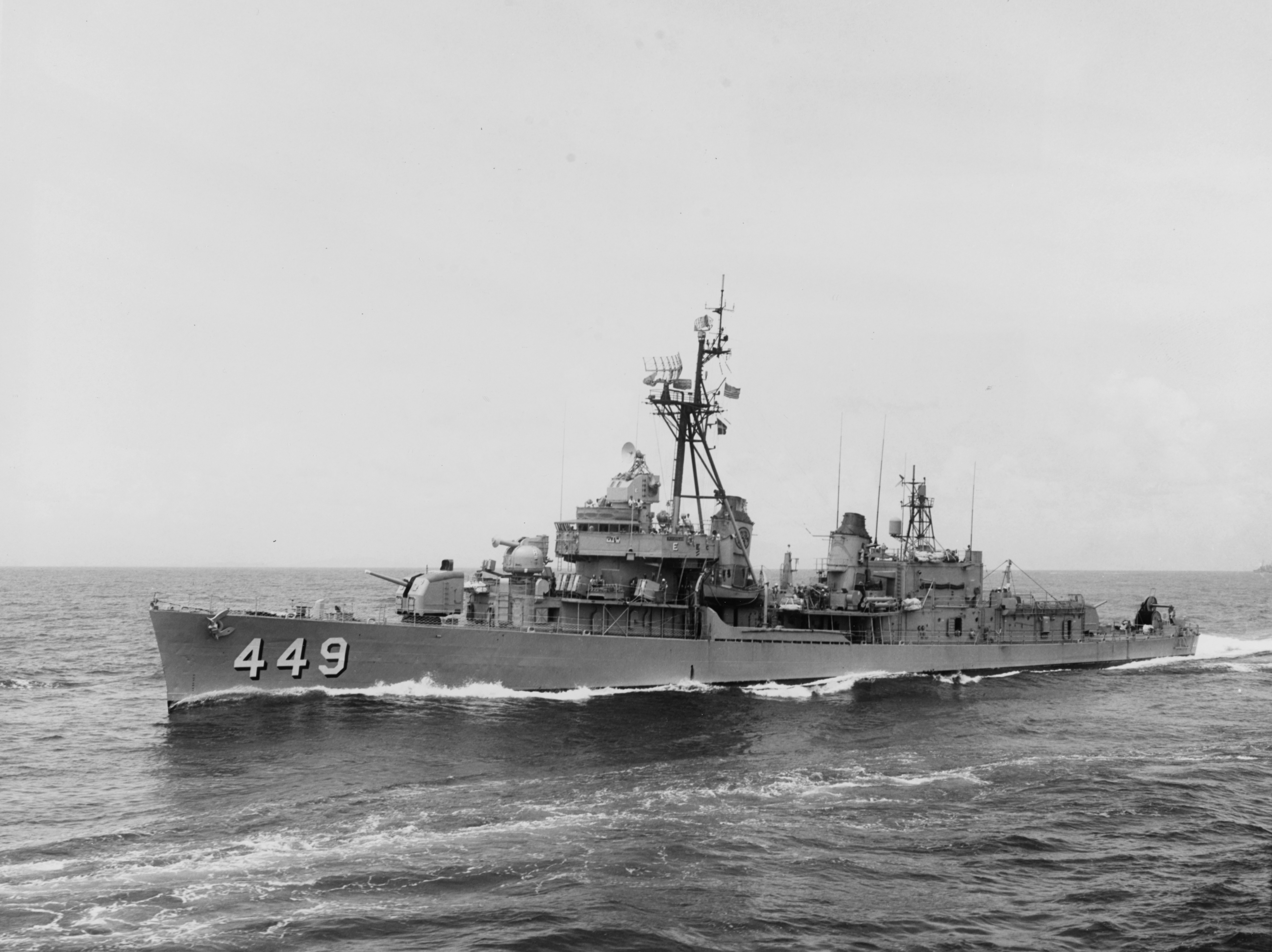 The U.S. Navy Fletcher-class destroyer USS Nicholas (DD-449) underway at sea in June 1964. Note her 1960 FRAM II modernizations, new smokestack caps and the DASH drone helicopter hangar and flight deck.